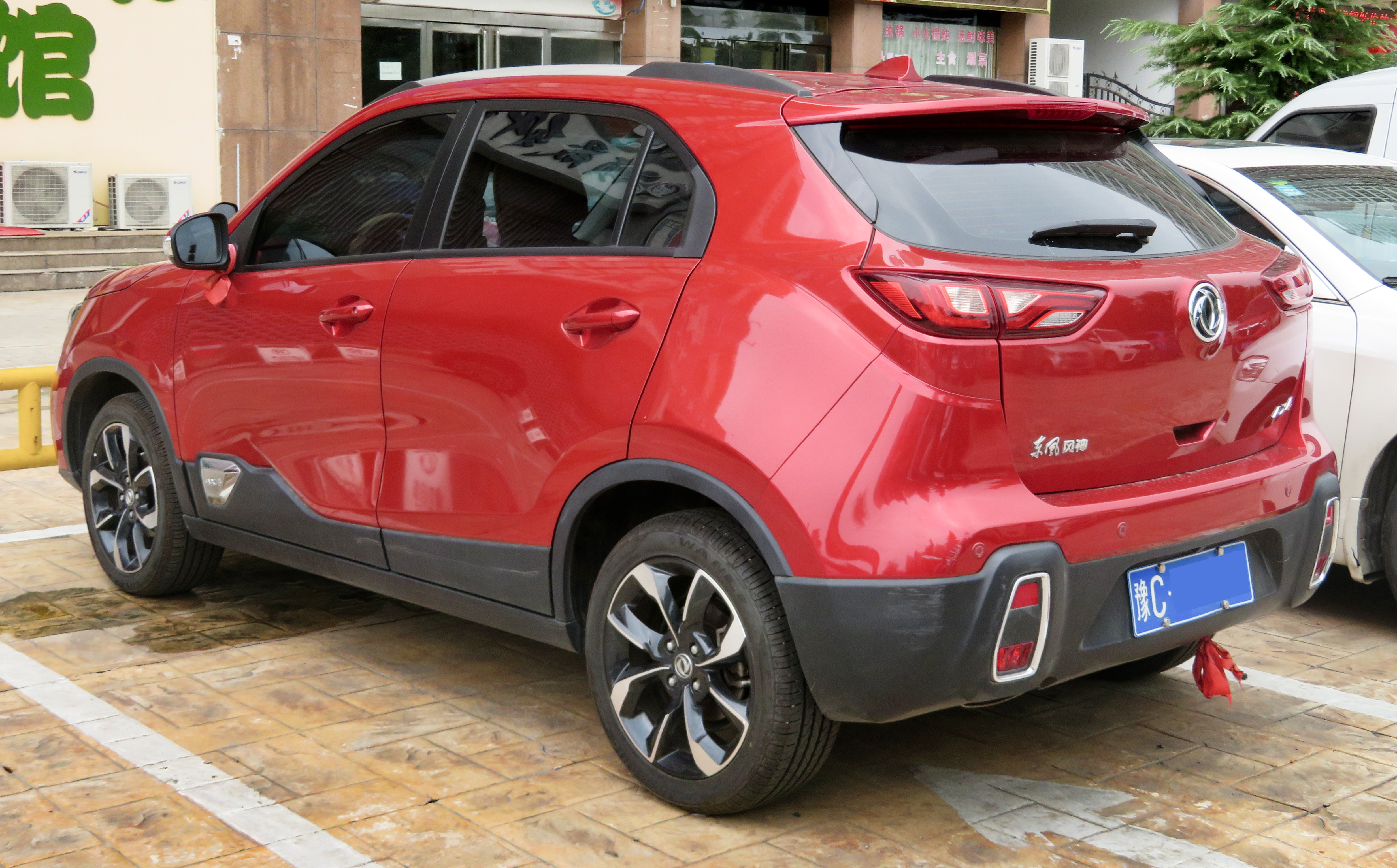 A 2018 Dongfeng-Fengshen AX4 photographed in Xigong District, Luoyang, Henan province, China